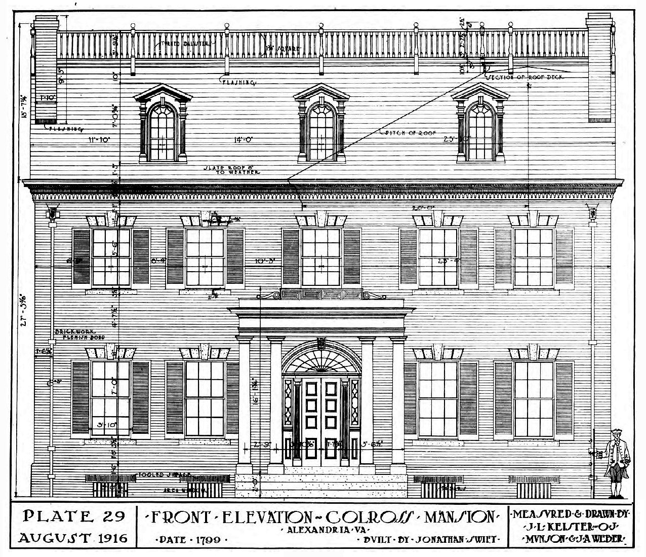 Colross (also historically known as Belle Air and Grasshopper Hall) is a Georgian mansion and former estate in Old Town Alexandria in the U.S. state of Virginia. Colross is currently the administration building for Princeton Day School in Princeton, New Jersey. This image is scanned from: Rogers and Manson Company (1916) The Brickbuilder, Volume 25, Boston, Massachusetts: Rogers and Manson Company